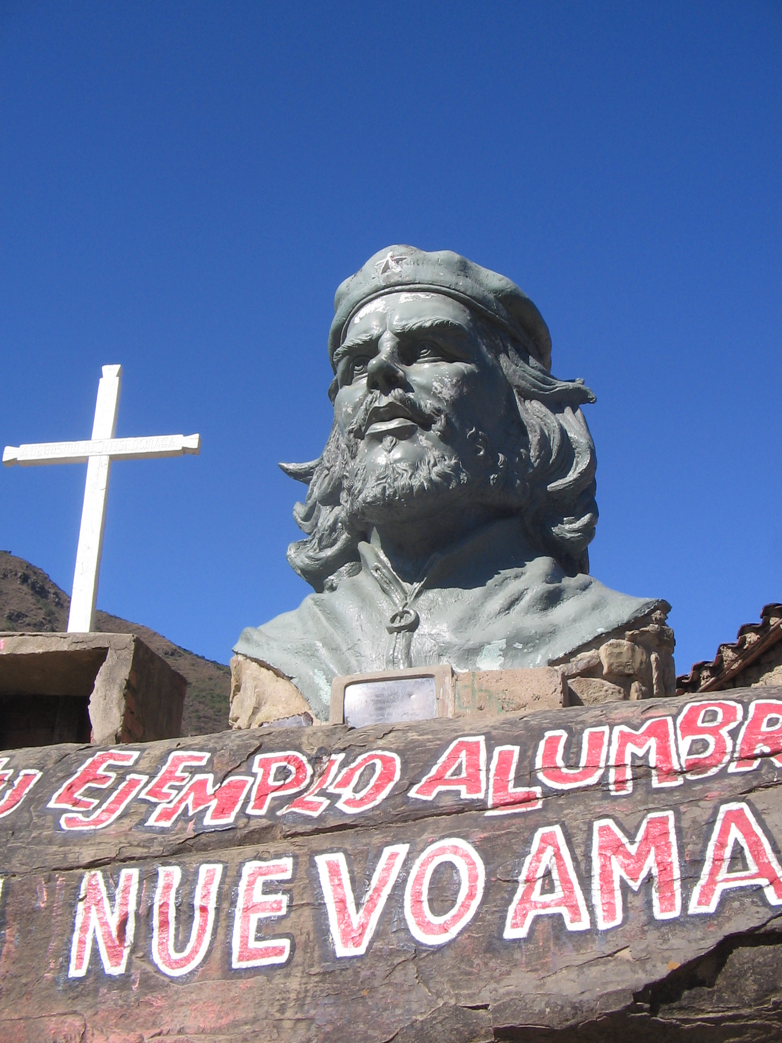 Photo of a Che Guevara statue at La Higuera the site of his death in Bolivia.